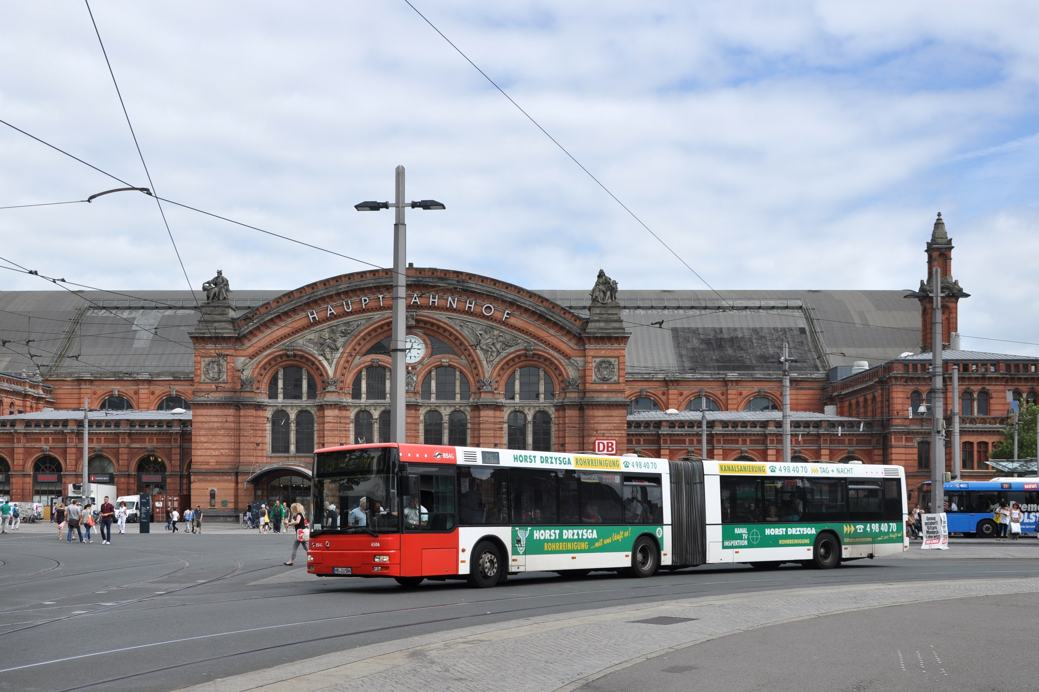 MAN Lion's City of BSAG in front of Bremen Hauptbahnhof.